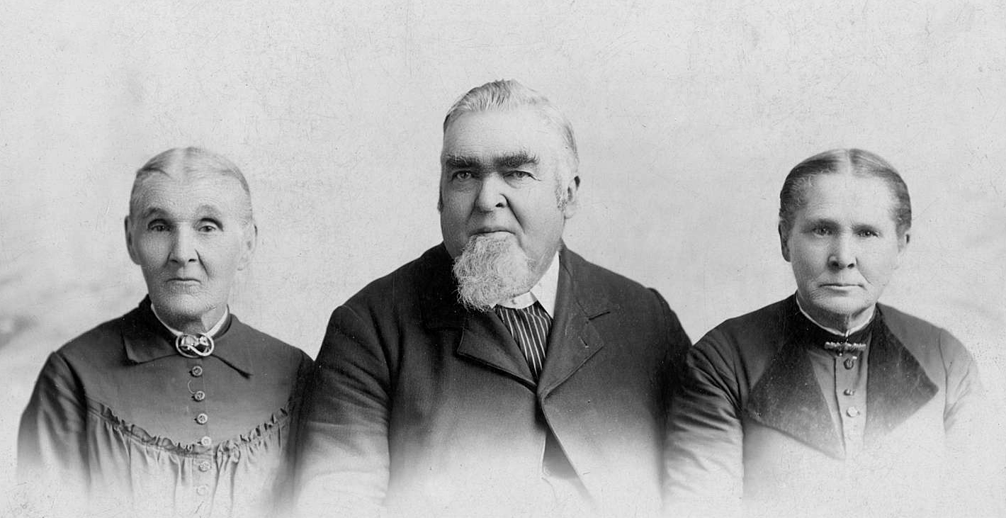 Portrait of Joel Parrish, a Latter-day Saint pioneer, and two women, most likely his sisters Jane Parish Lindsay and Priscilla Parish Roundy. Photo taken by Savage, C. R. (Charles Roscoe), 1832-1909. From the LDS Church History collection and digitized by Brigham Young University. The LDS church history library has the most current metadata here.